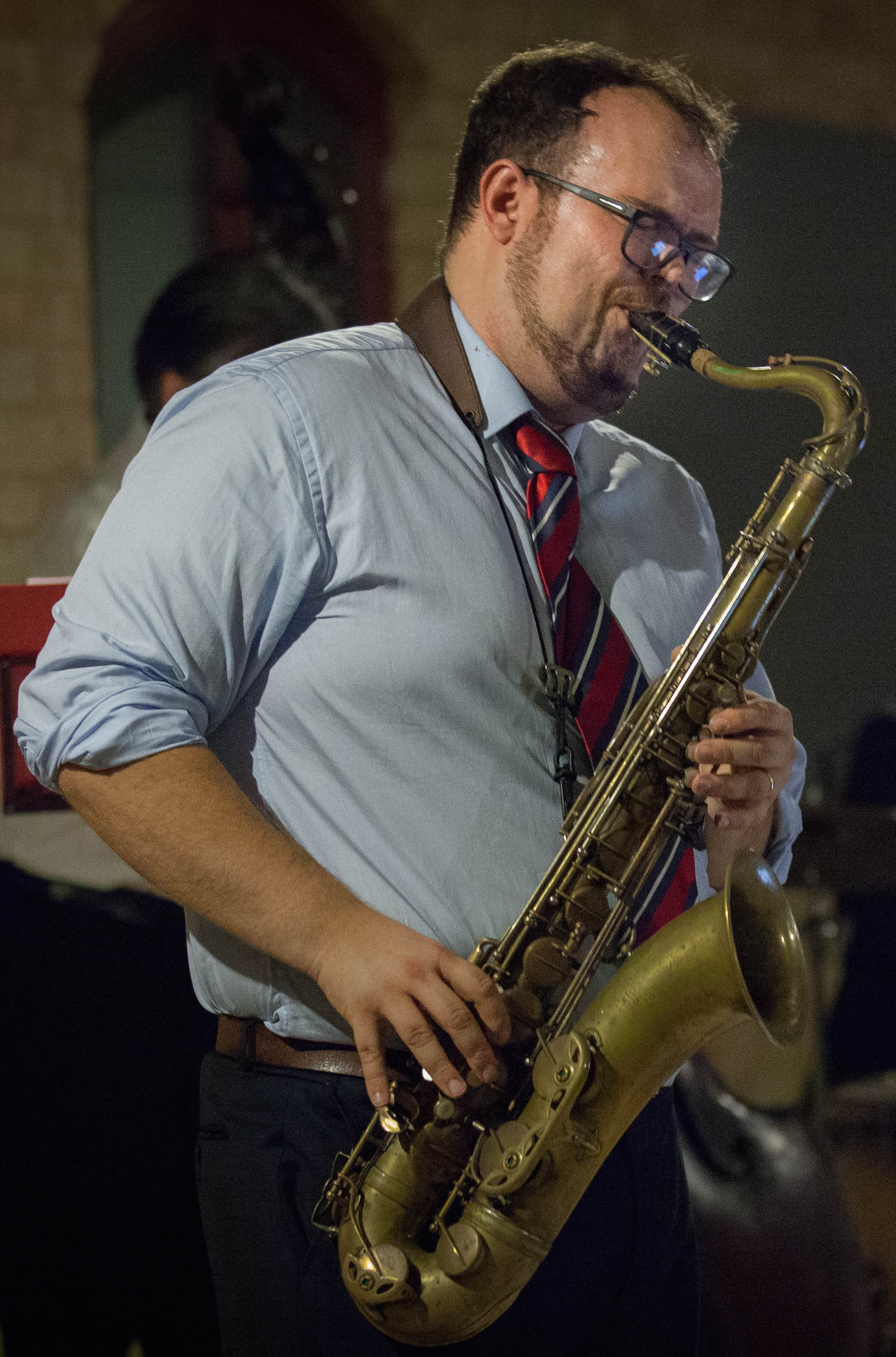 Dan Forshaw live at the Stapleford Granary